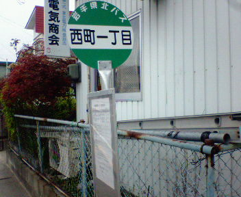 Iwate Kenpoku Bus Nishimachi 1-chome Bus Stop in Miyako City, Iwate Prefecture, Japan